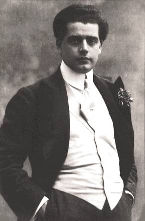 Photo of italian opera singer Guiseppe Anselmi (1876-1929)